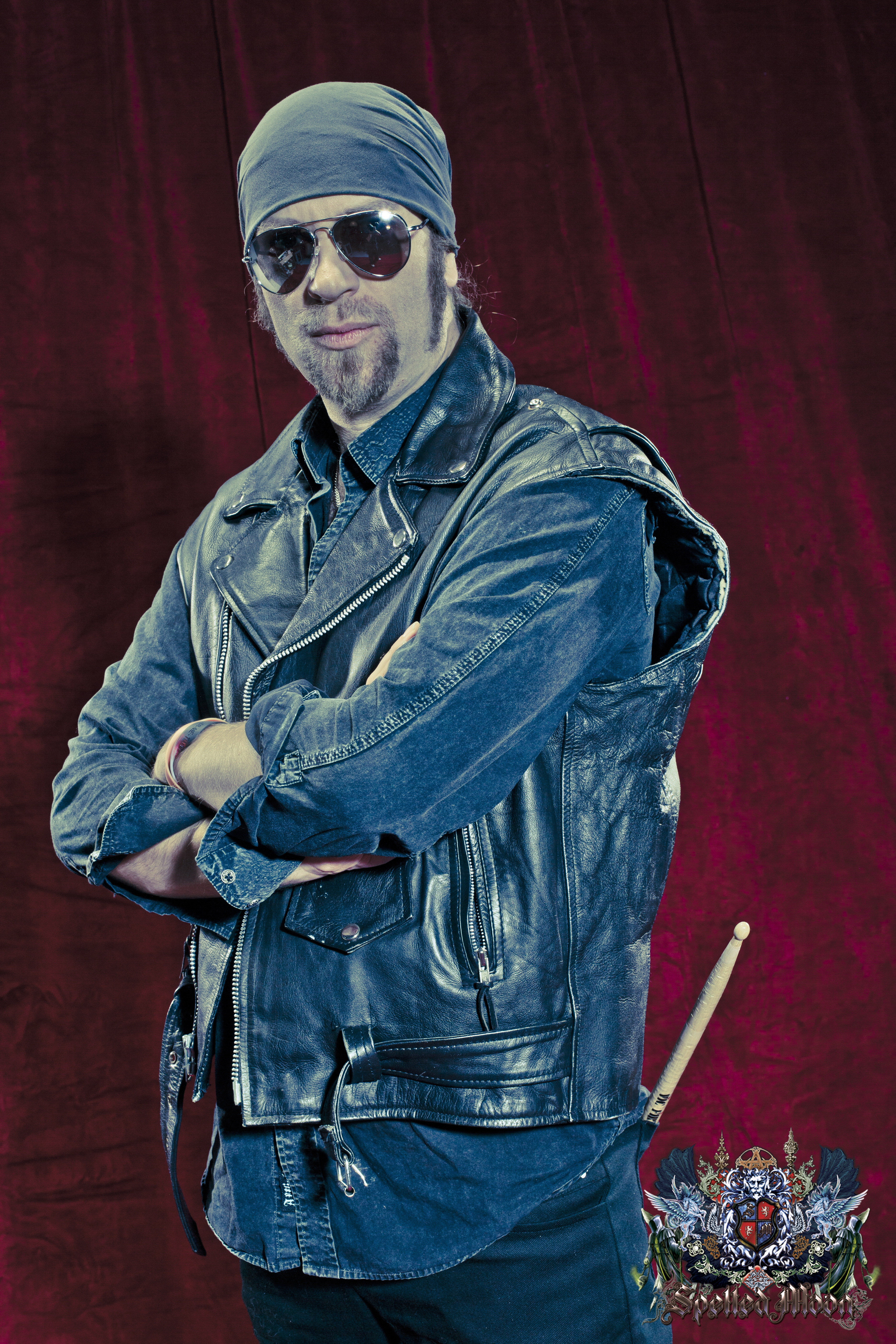 Patrick Johansson (Spelled Moon)